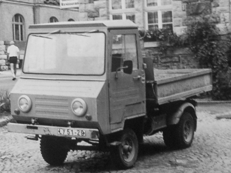 IFA Multicar M24 in front of the train station Lauscha, Germany in 1991